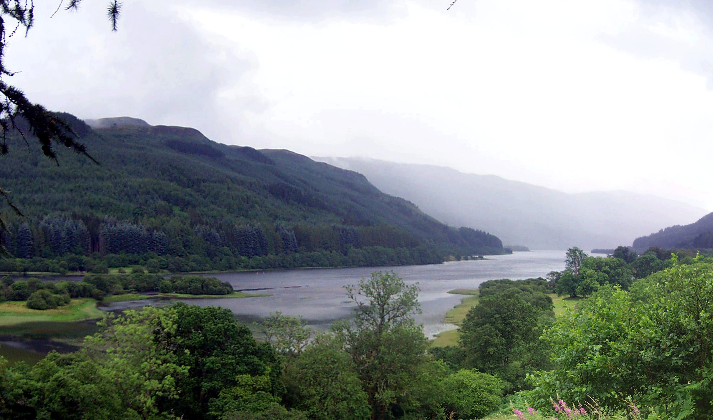 This is a view from the northern end of Loch Lubnaig looking back in the direction of Callander.